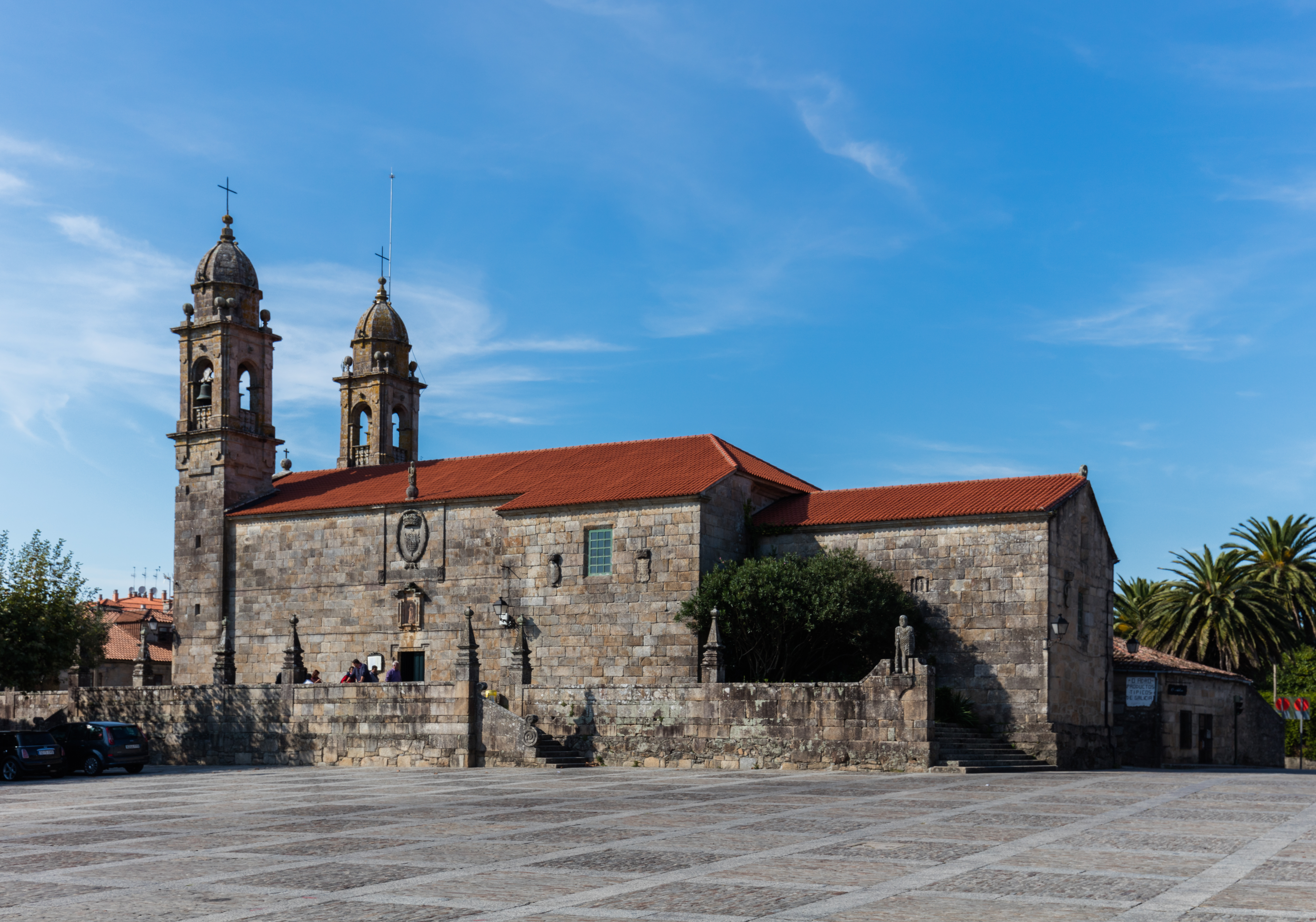 Church of St Benito, Cambados, Pontevedra, Spain